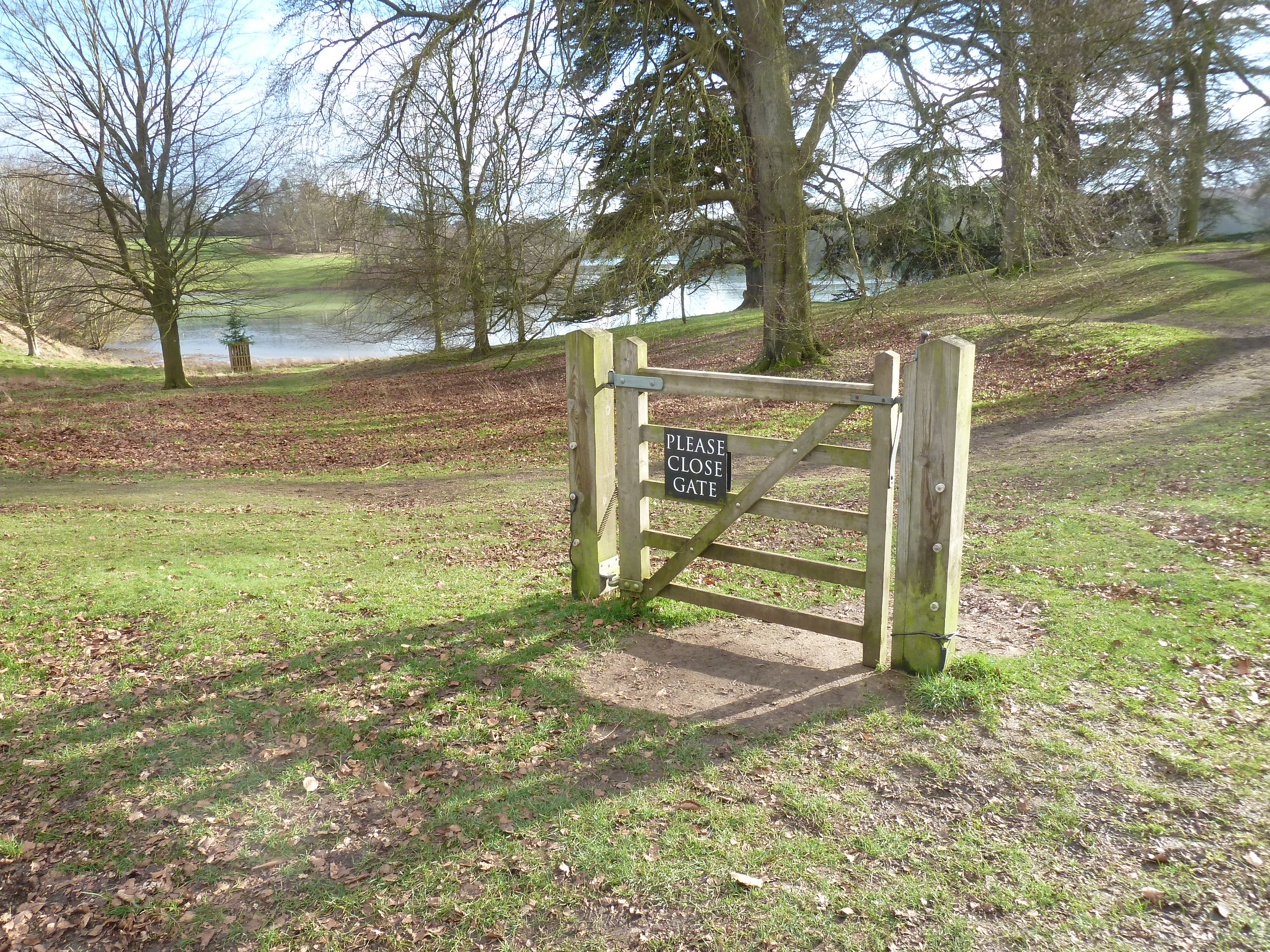 Gates standing on their own, without any fence or wall. The wires of the electric fence have been stripped (likely temporarily).